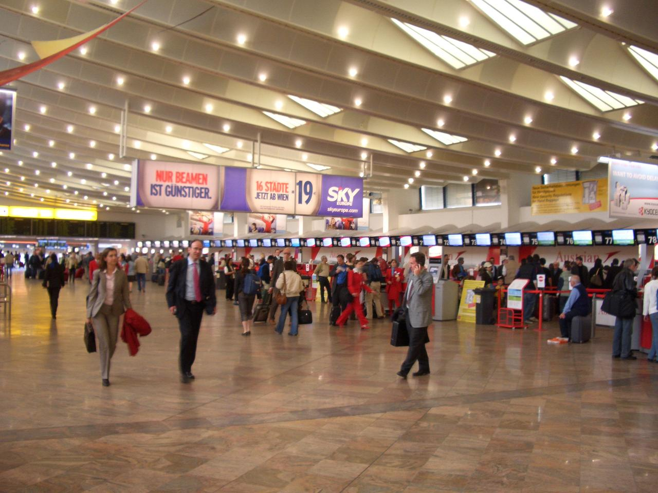 One of the check-in halls of Vienna International Airport